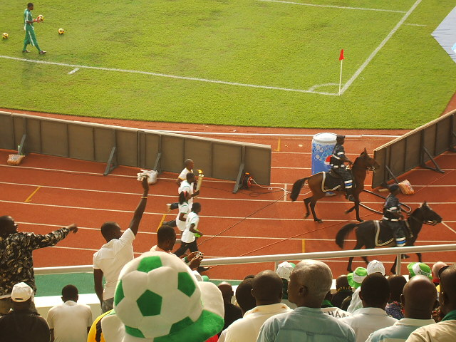 Sekondi stadium on 21st January 2008. africa cup of nations Photo by Oluniyi David Ajao *Can be reused only when attribution is provided.